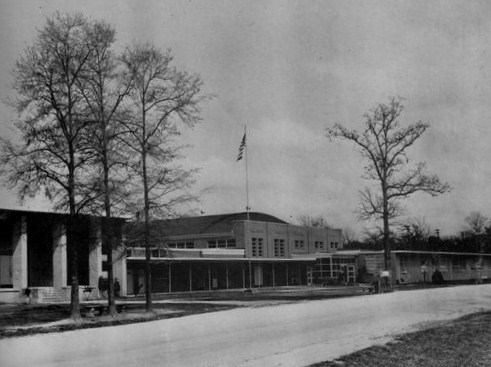 C.E. King Junior-Senior High School before becoming C.E. King Middle School.